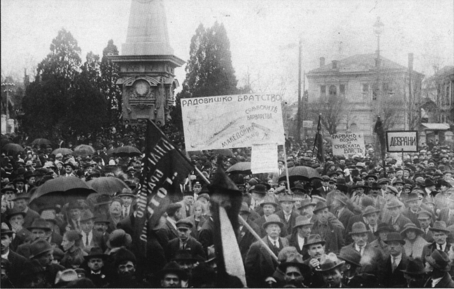 protest